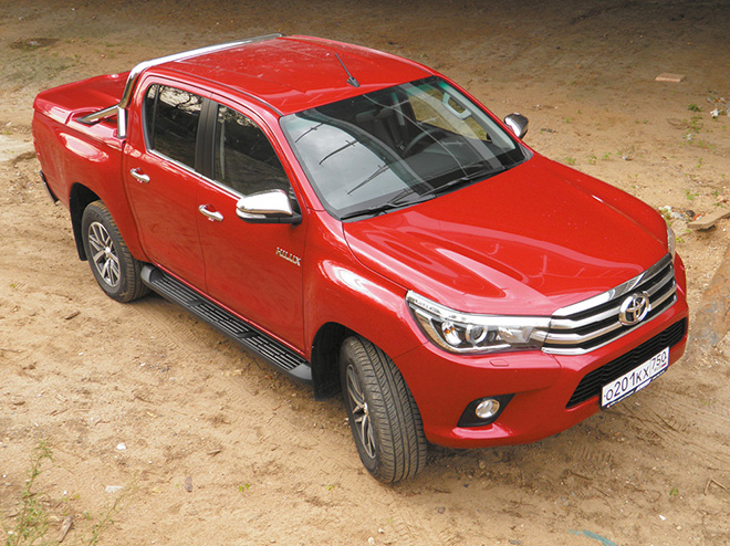 Toyota Hilux